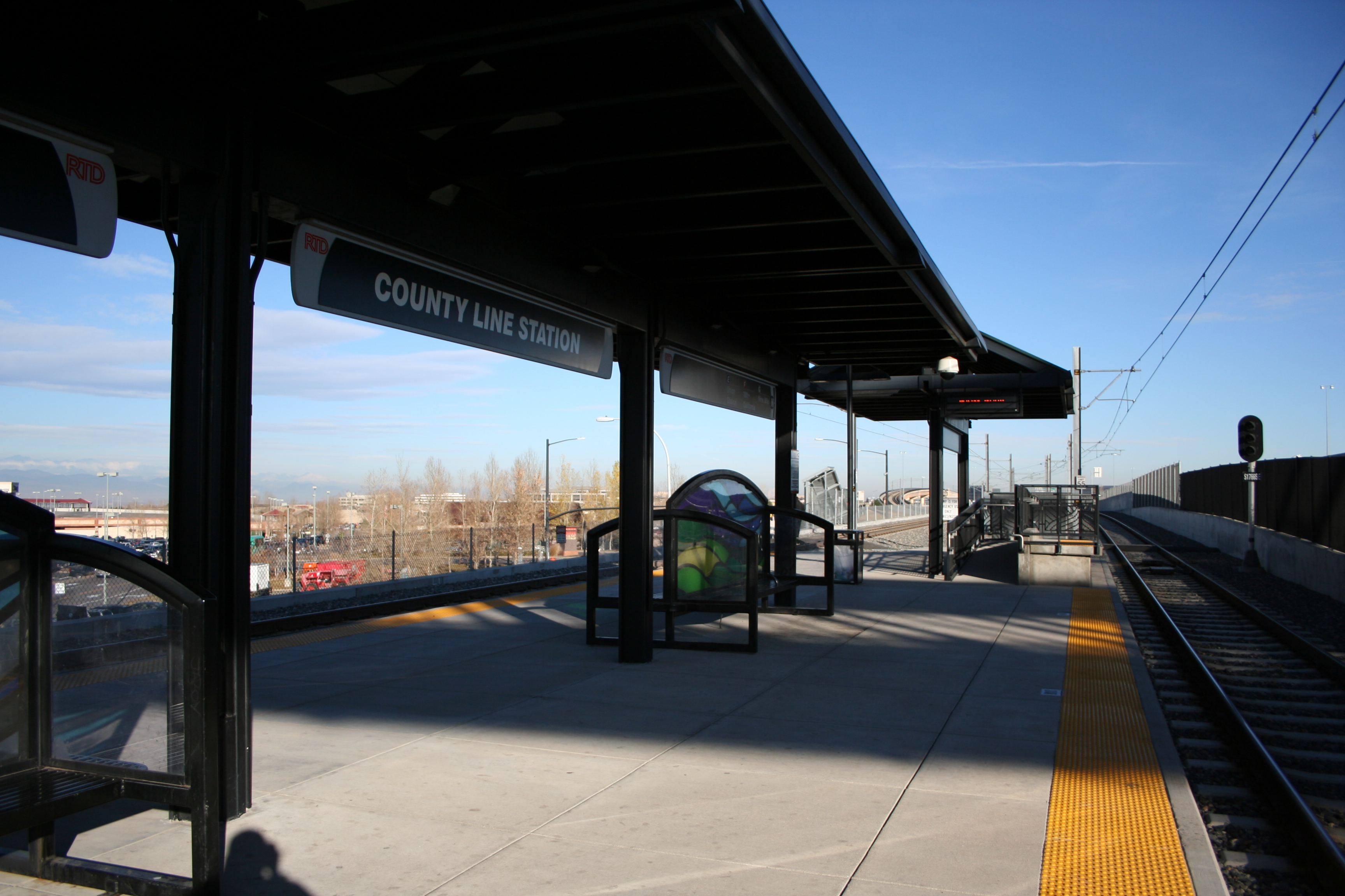 The County Line light rail RTD stop in Lone Tree, Colorado